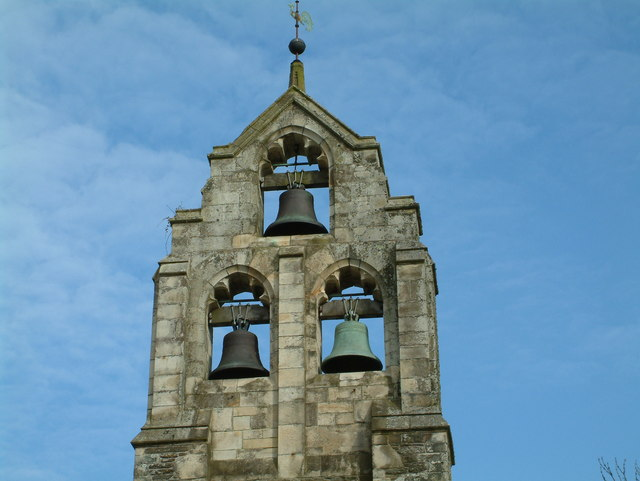 Church bell gable at Tresillian, Cornwall